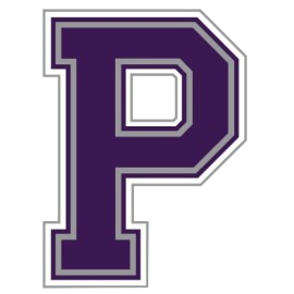 A purple "P" with a gray and white solid border. Stands for Portola High School.